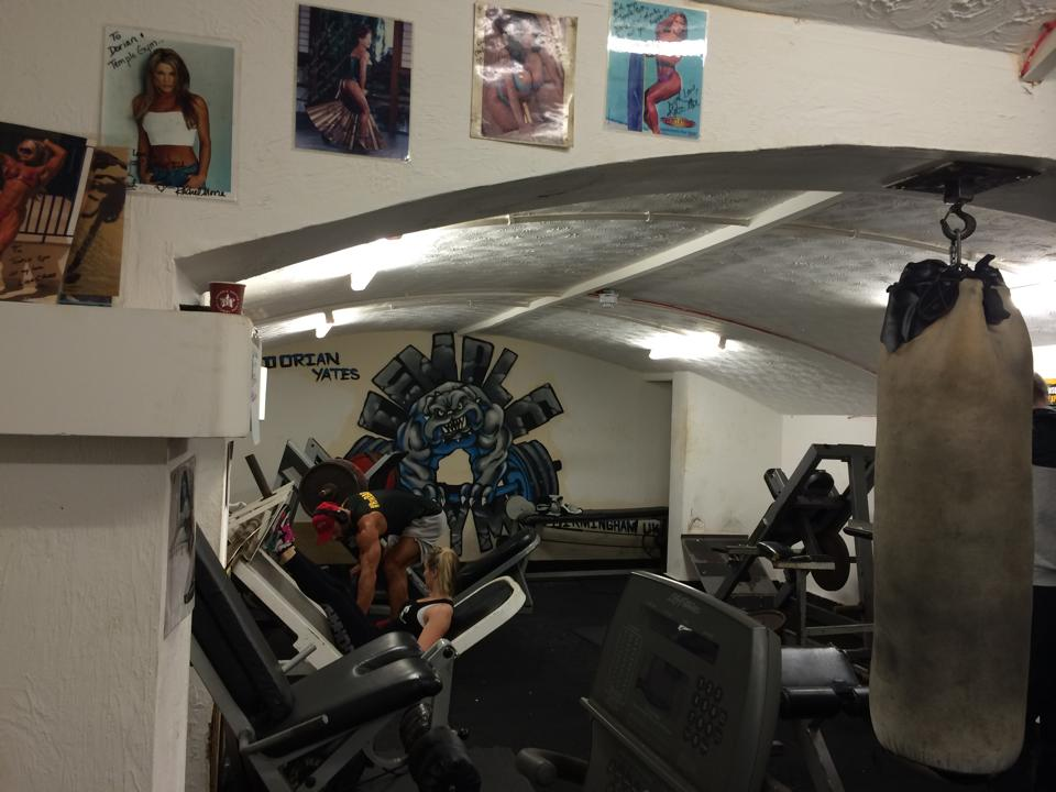 Temple Gym owned by Dorian Yates